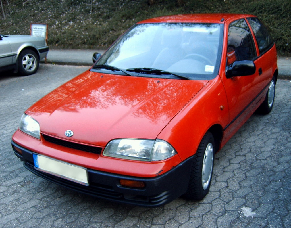 Subary Justy (1996)